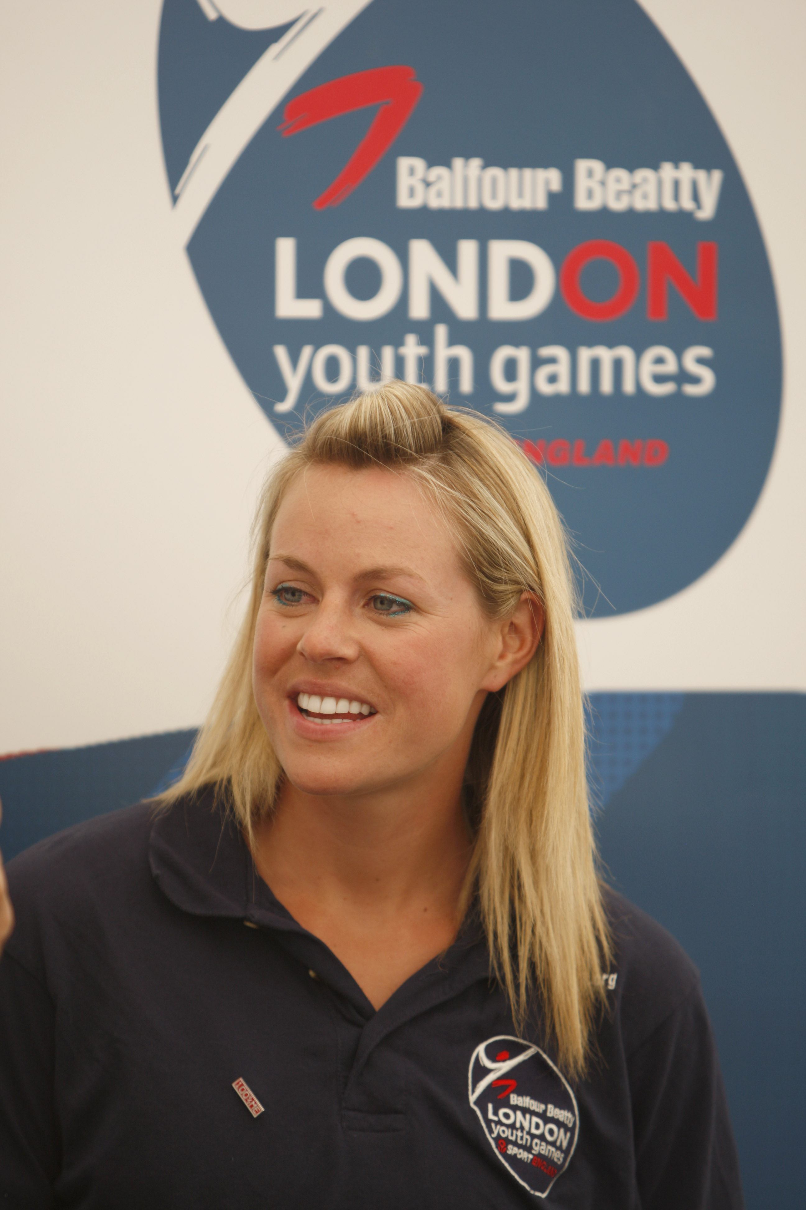 Chemmy Alcott at the London Youth Games